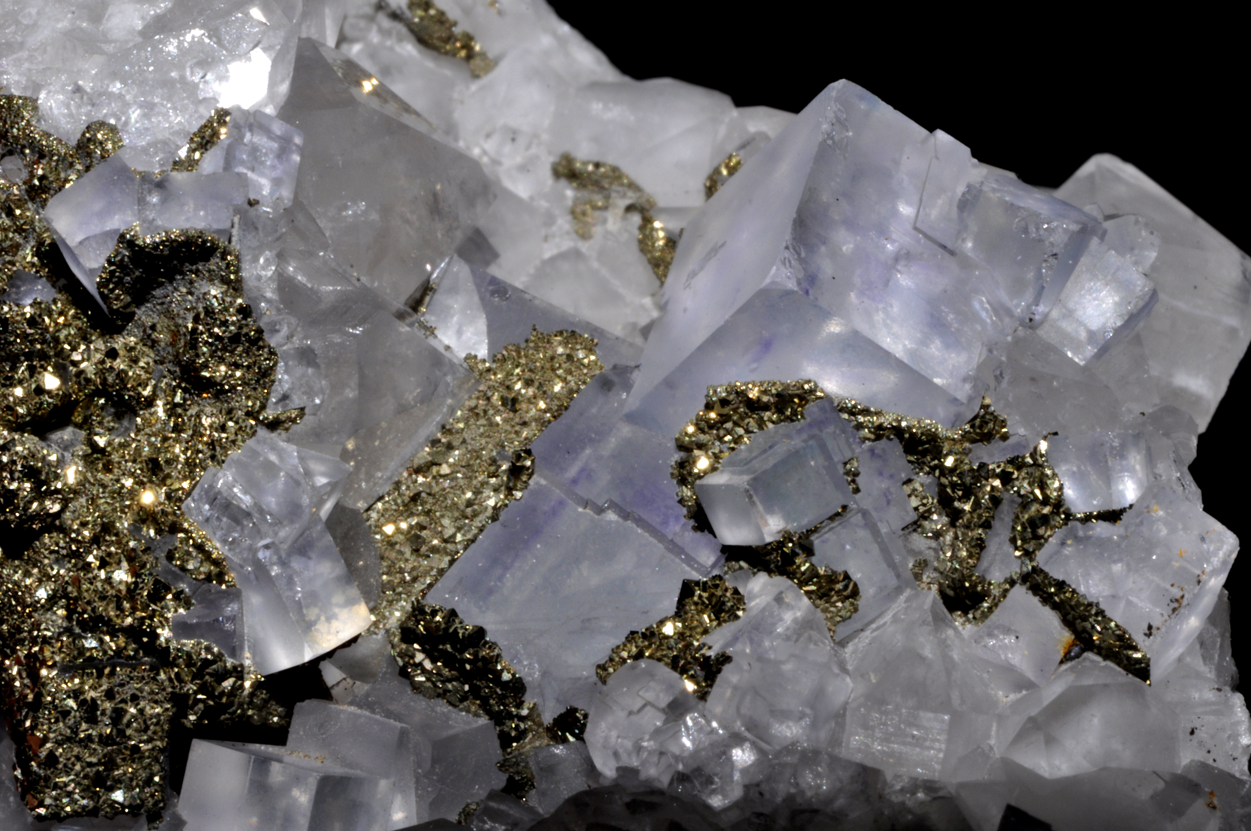 fluorite, pyrite : Igoudrane mine, Imiter district, Djebel Saghro (Jbel Saghro), Ouarzazate Province, Souss-Massa-Draâ Region, Morocco